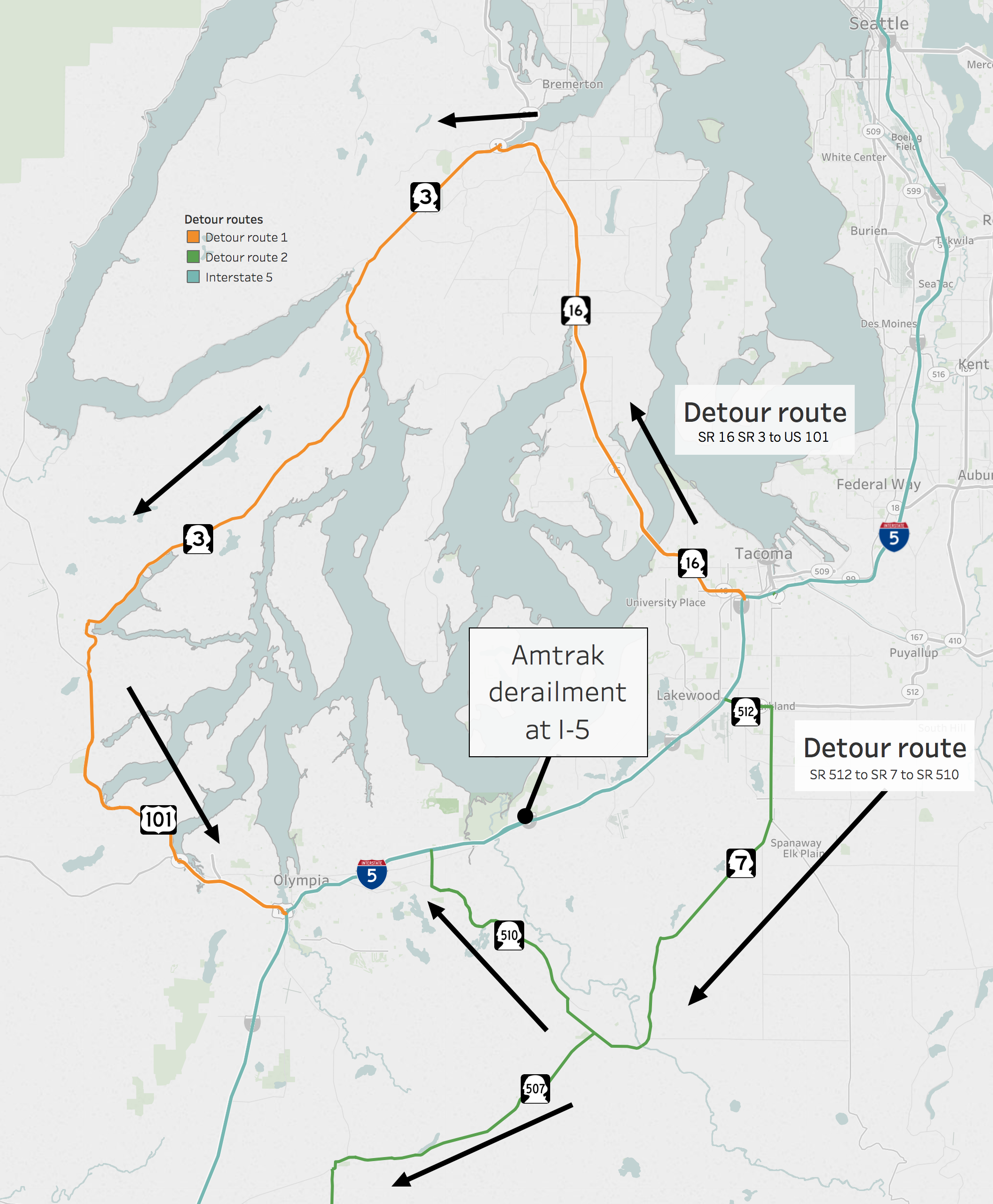 2017 Washington train derailment detour routes from WSDOT on December 18, 2017, 6 PM Pacific.